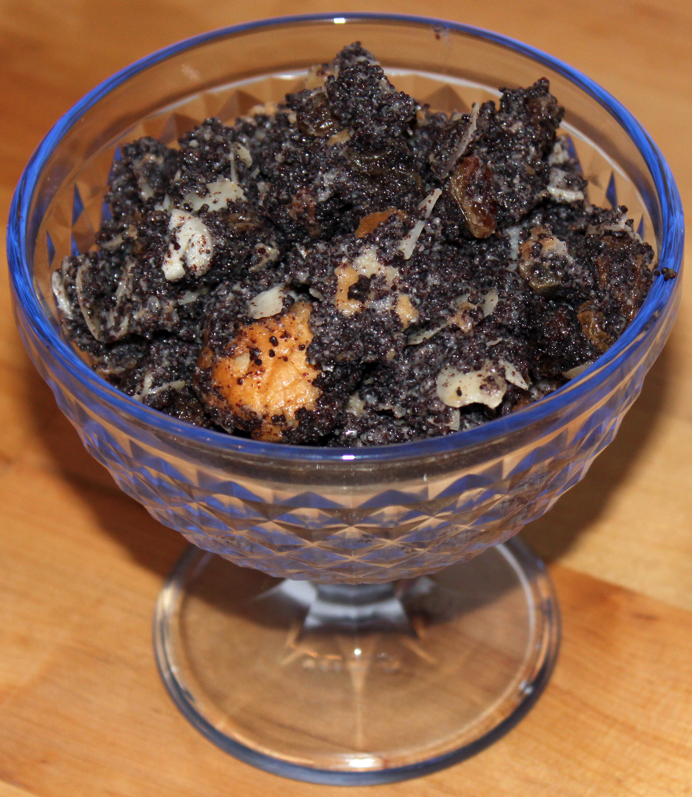 Mohnpielen (Silesian traditional dessert for Christmas and New Year)